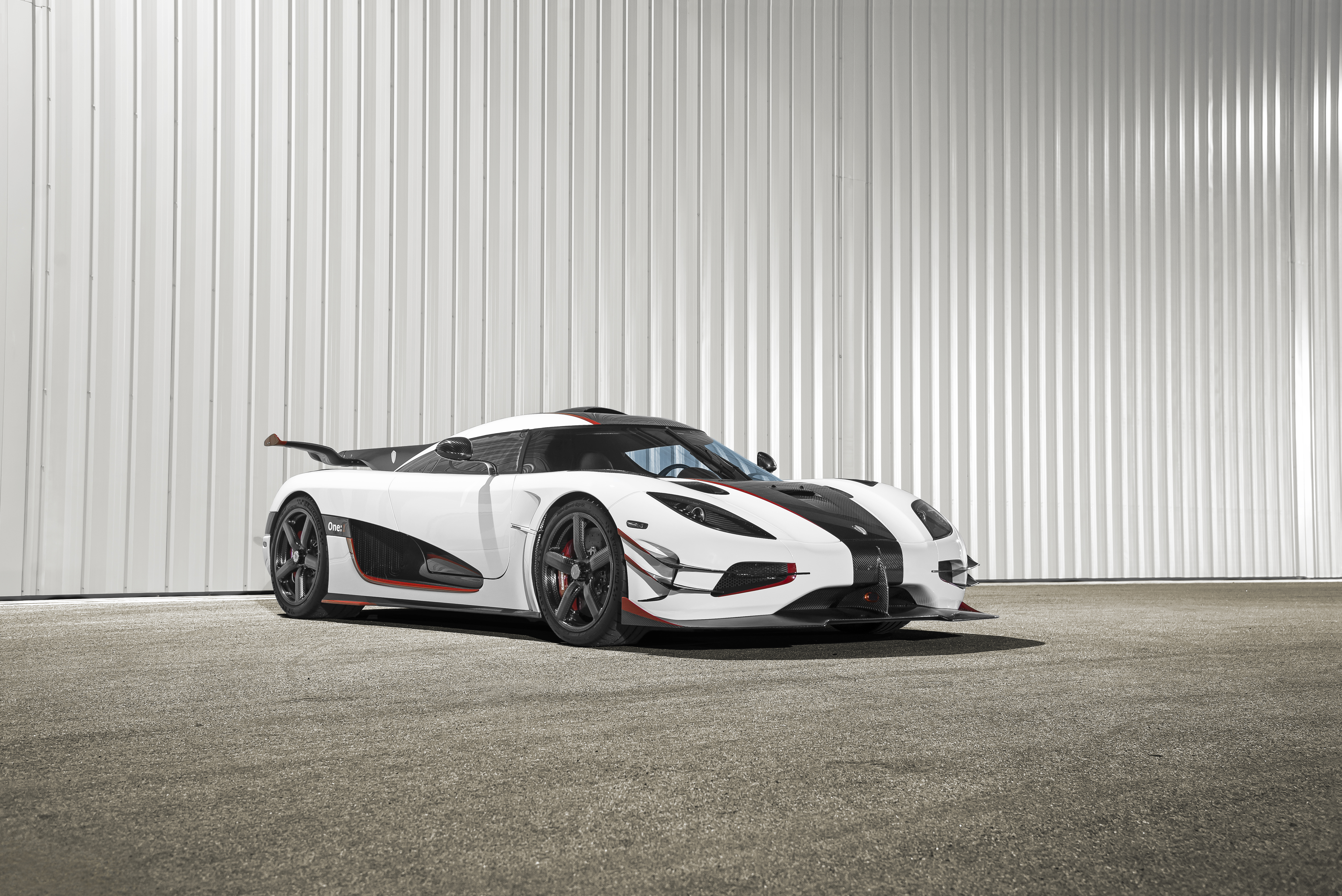 Koenigsegg One:1 at the Jet Center in Monterey California.